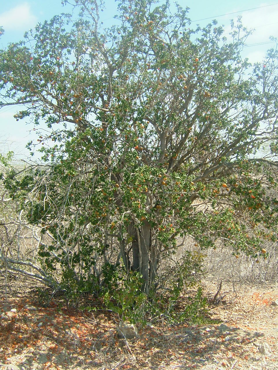 Arbusto de Barbasco